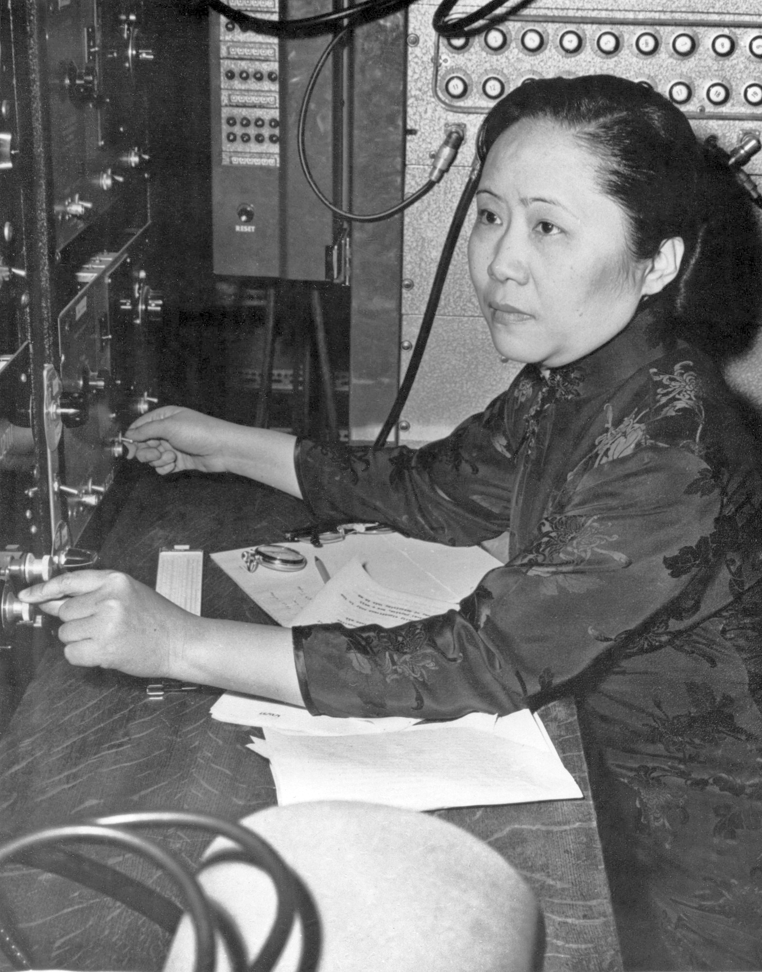 Subject: Wu, C. S (Chien-shiung) 1912-1997 Columbia University Type: Black-and-white photographs Topic: Physics Women scientists Local number: SIA Acc. 90-105 [SIA2010-1509] Summary: In 1963, Chien-Shiung Wu (1912-1997), professor of physics at Columbia University, was already considered one of the world's foremost experimental physicists. Her team's experiments had confirmed the theory of sub-atomic behavior known as "weak interaction Cite as: Acc. 90-105 - Science Service, Records, 1920s-1970s, Smithsonian Institution Archivess Persistent URL: Link to data base record Repository: Smithsonian Institution Archives View more collections from the Smithsonian Institution.